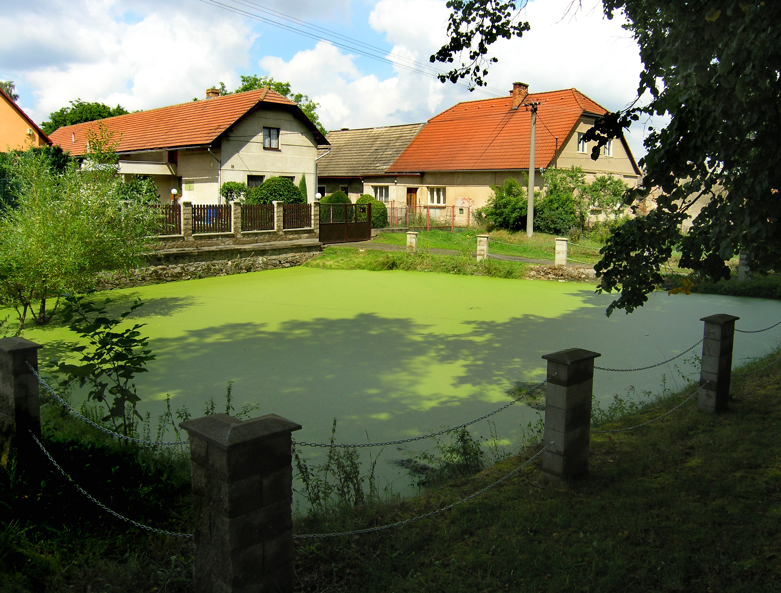 Zdeslavice, part of Černíny village, Czech Republic